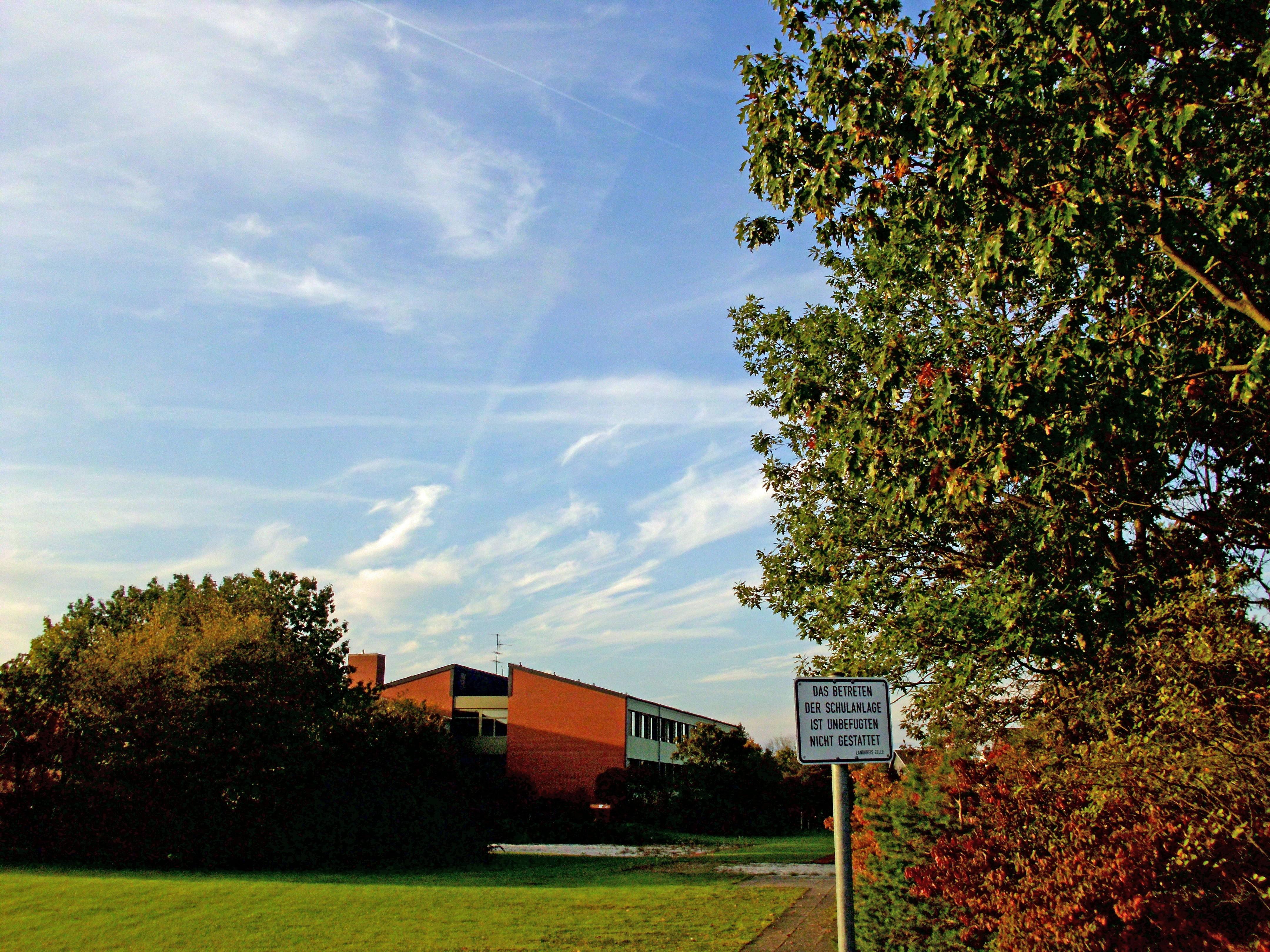 The Realschule Lachendorf in September 2010